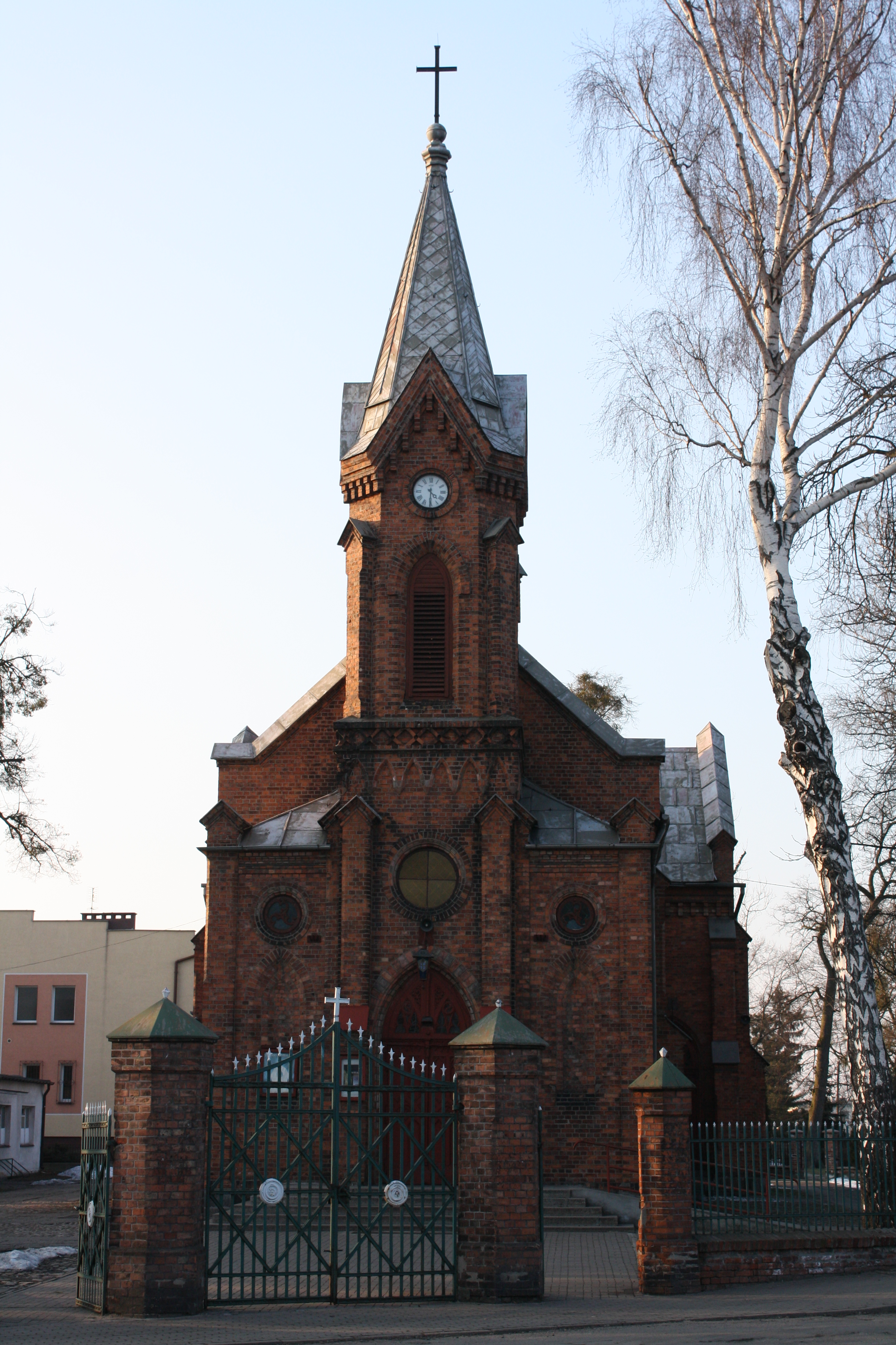 Church in Aleksandrow Kujawski, March 2010